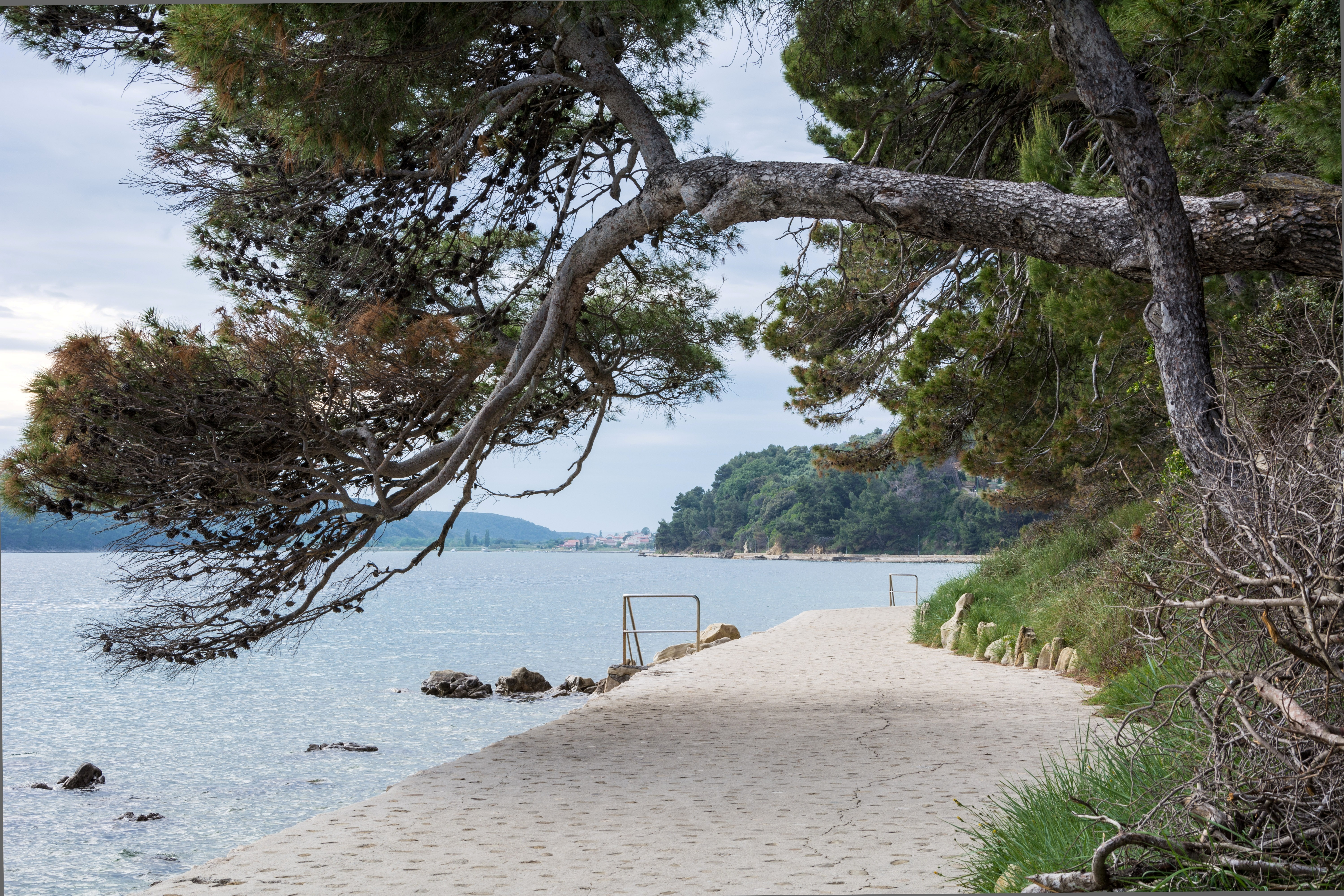 During a visit in 1910 Prinz Alois von Liechtenstein was so enthused about town and park Komrčar that he financed the construction of a seaside promenade.